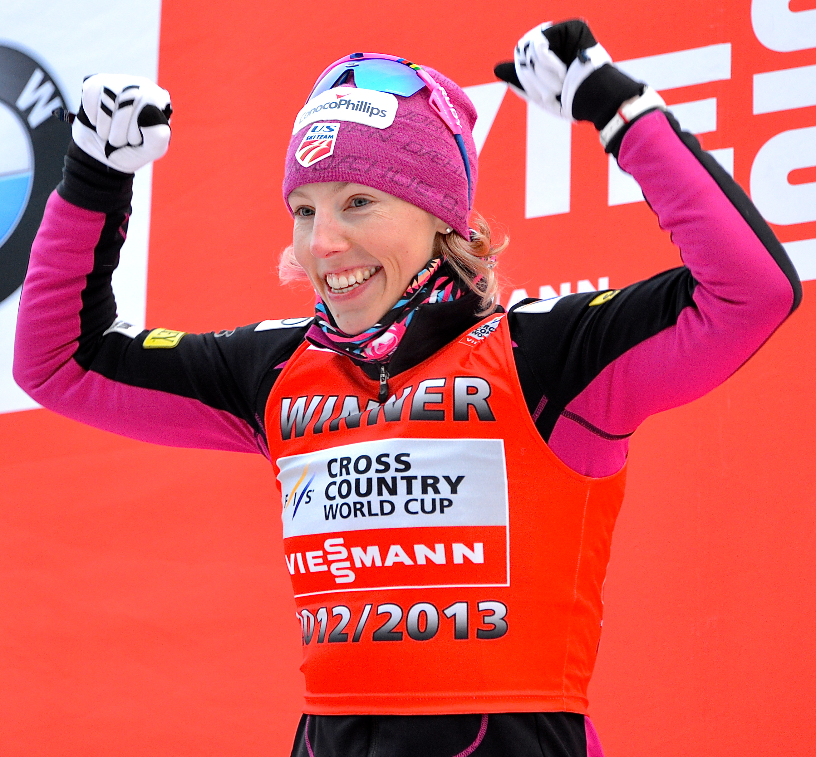 Kikkan Randall at the Royal Palace Sprint, part of the FIS World Cup 2012/2013, in Stockholm on March 20, 2013. Kikkan Randall winner of the sprint cup.